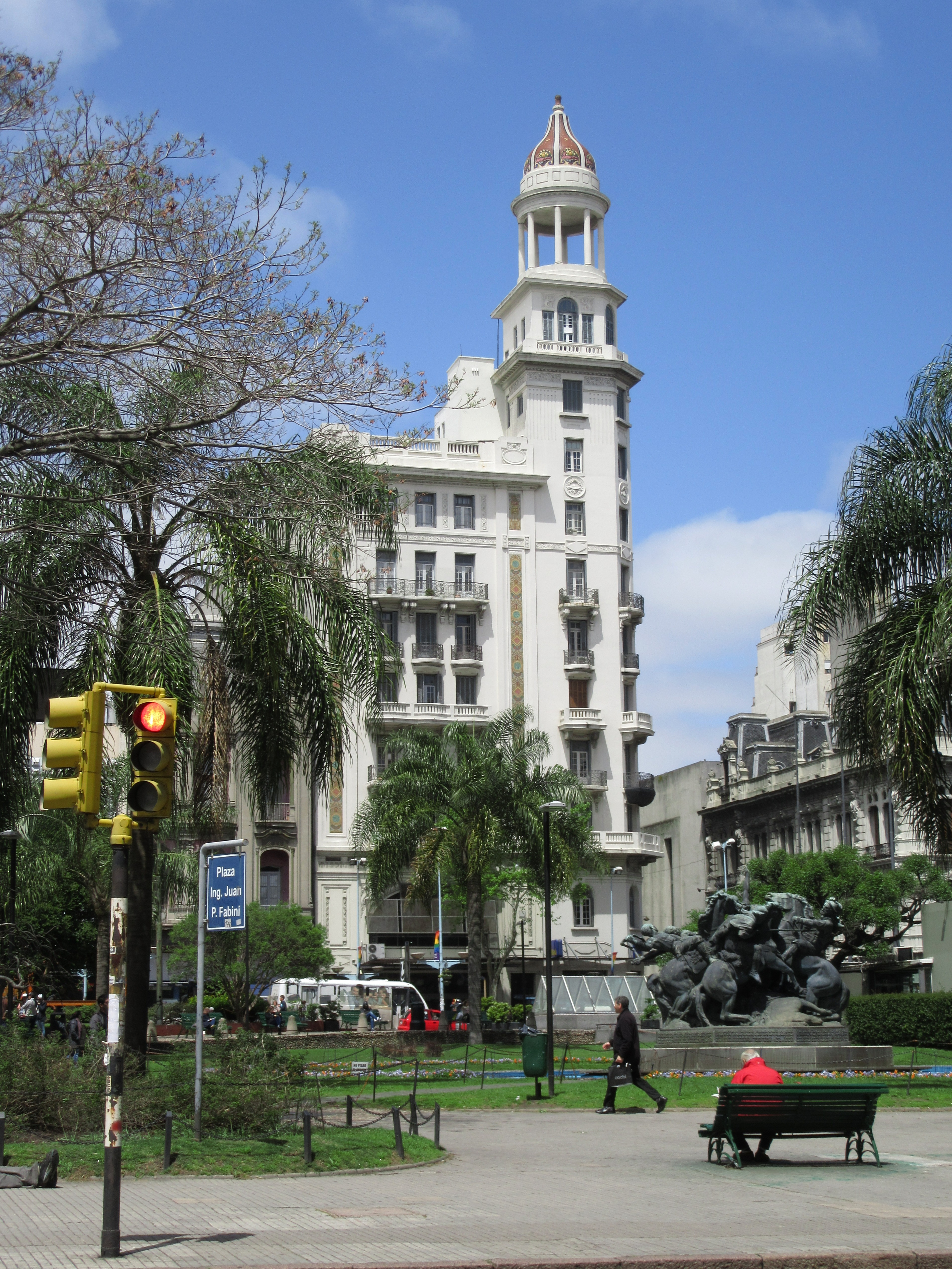 Montevideo